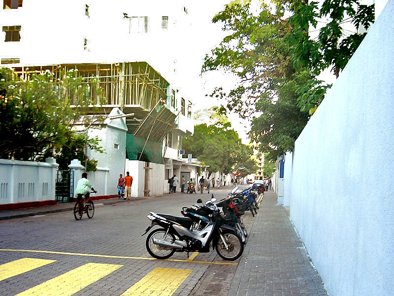 a typical road in malé